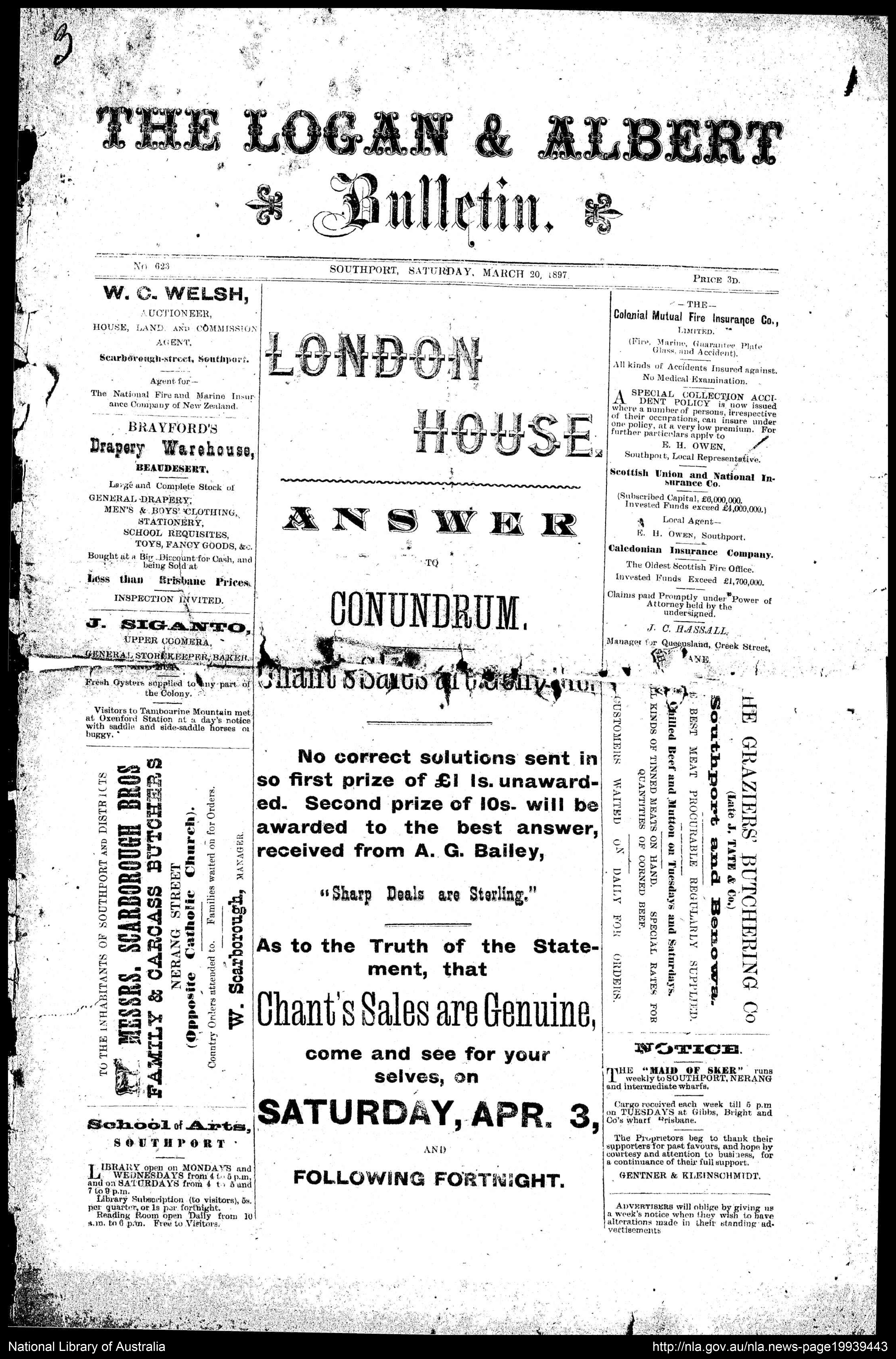 Page image from the National Library of Australia's Newspaper Digitisation Program